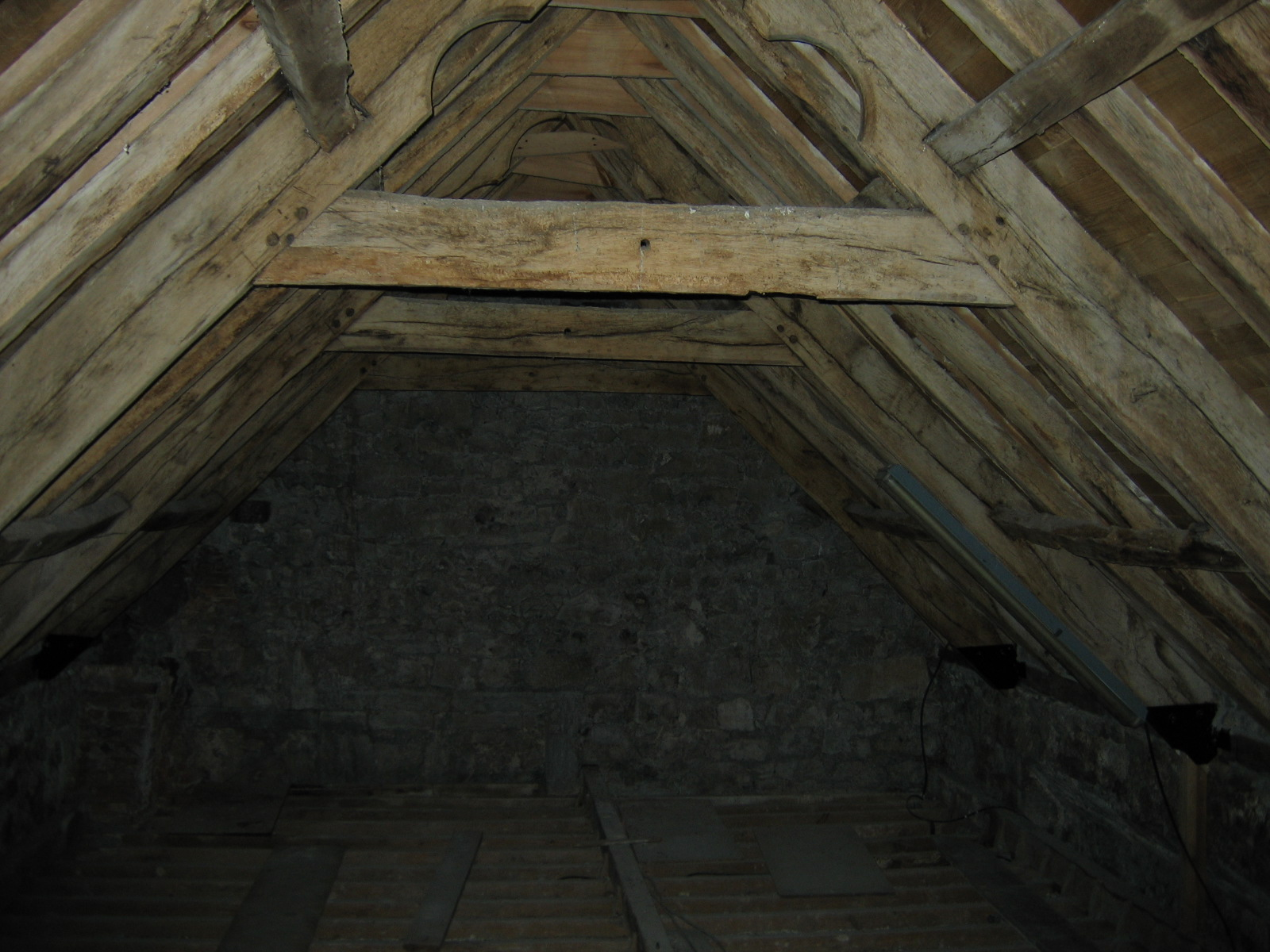 Interior construction of roof at Foulksrath Castle, County Kilkenny, Republic of Ireland.